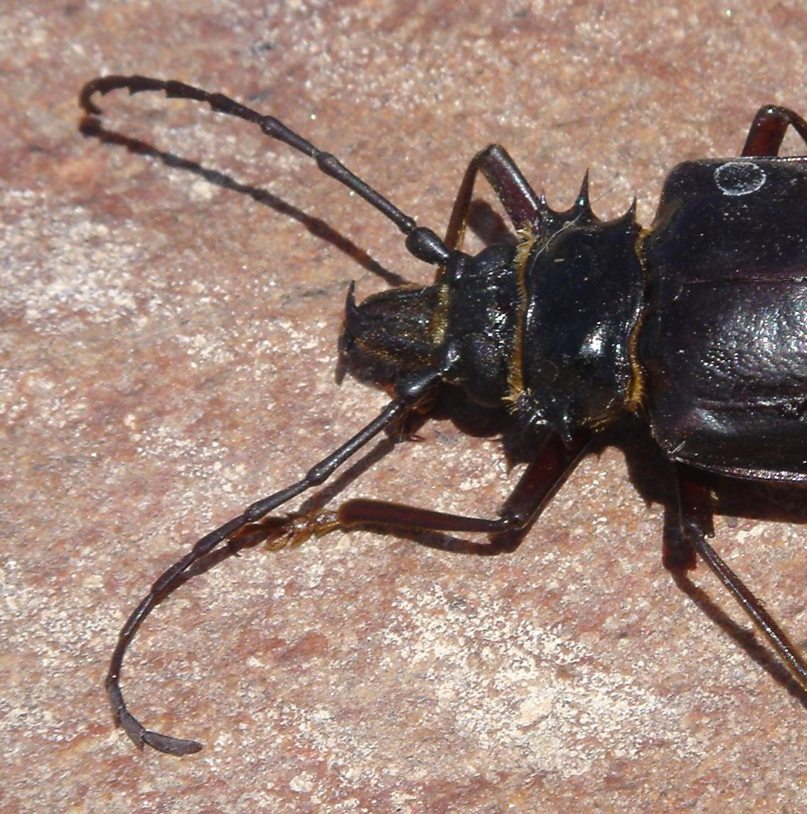 Anthracocentrus capensis, Prioninae, in Namibia.Etym.: anthrakos coal (black), kentron spur (of the pronotum), capensis Cape of Good Hope, South Africa